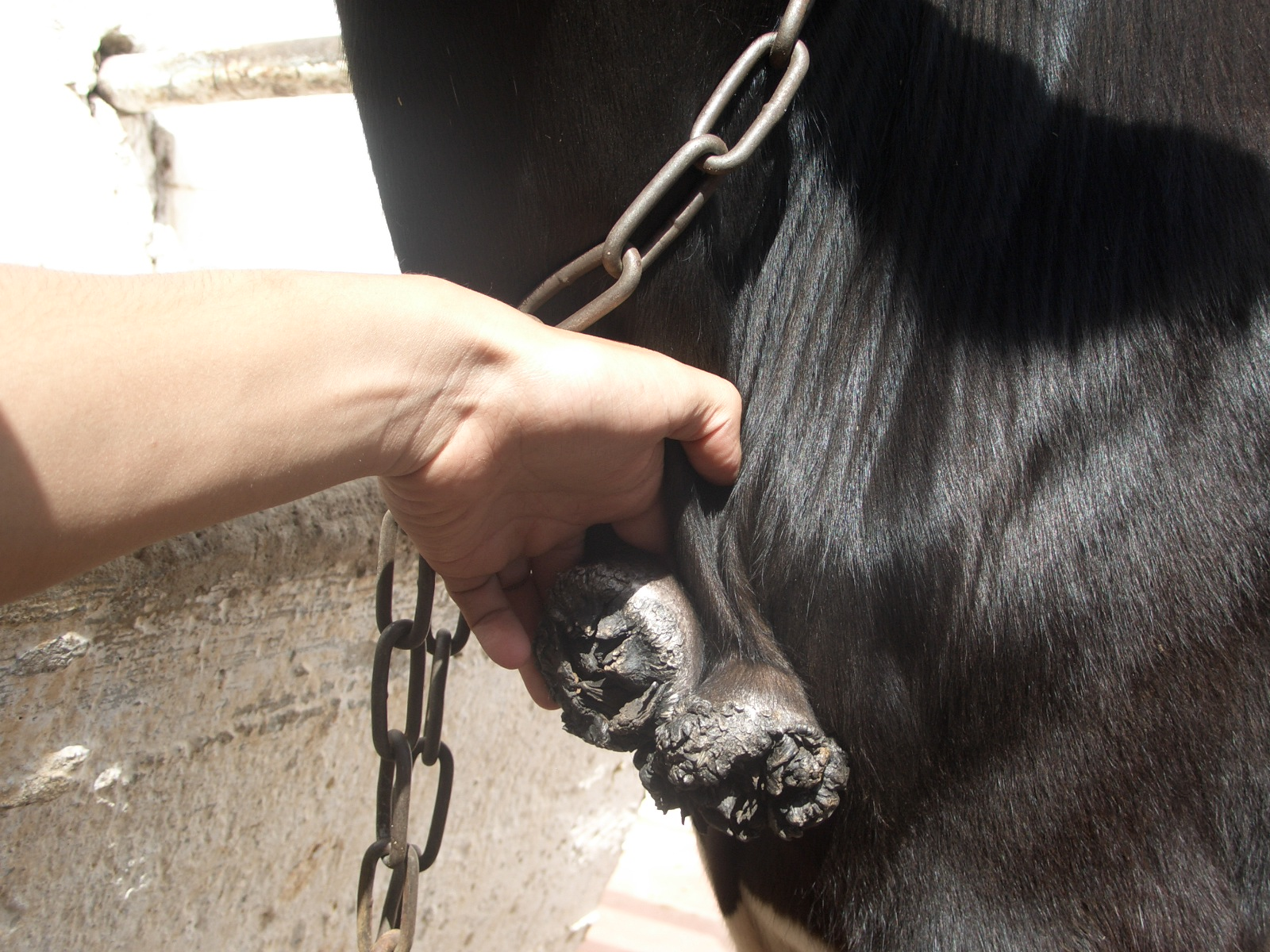 two papillomes on a 4-month-old calve (on the downer part of the neck). Walon: deus poreas (sclatés a môde di tchou-fleur) a on vea d' 4 moes (sol dizo do cô)